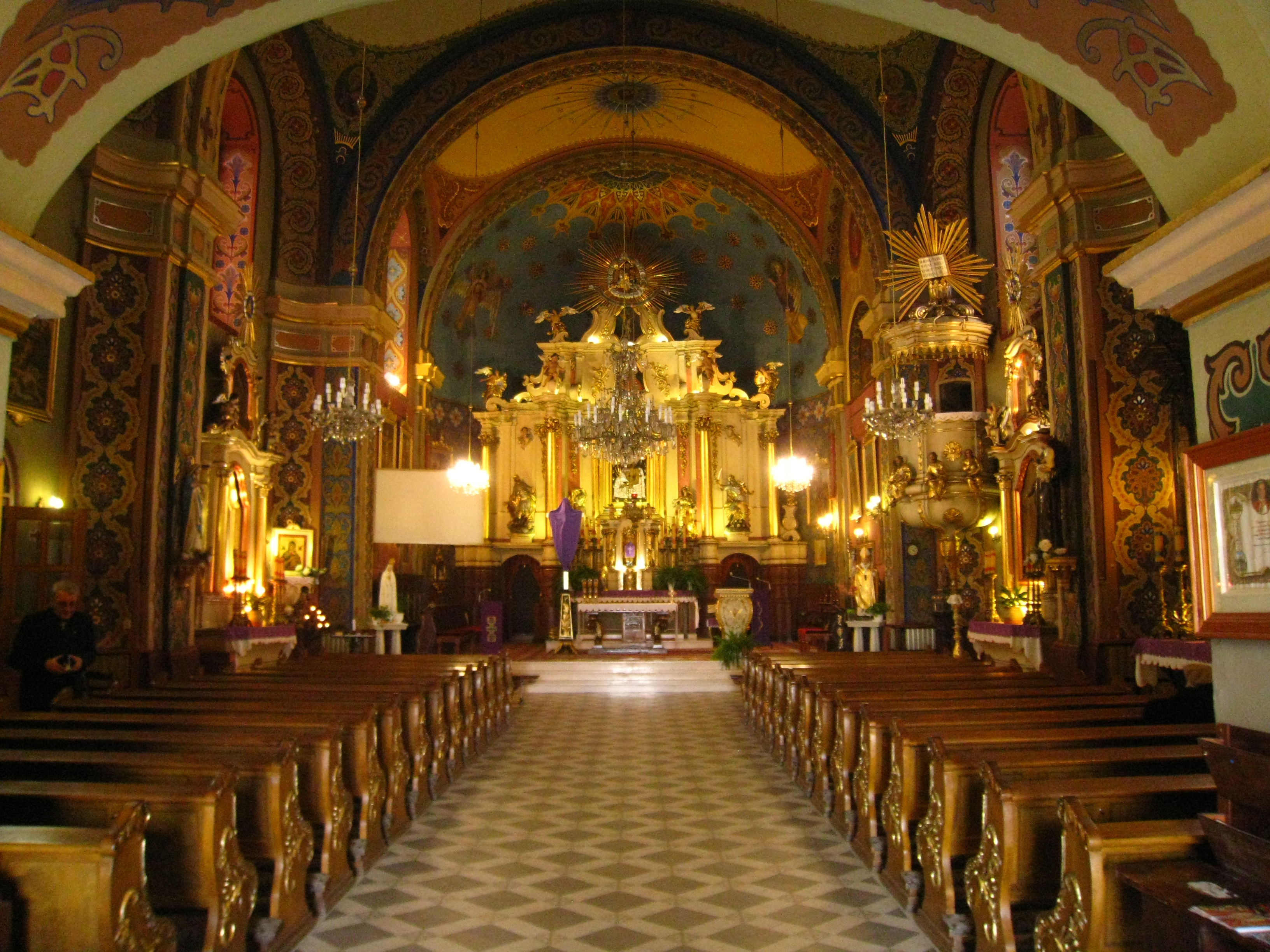 Interior of church in Bielany village, near Auschwitz PL